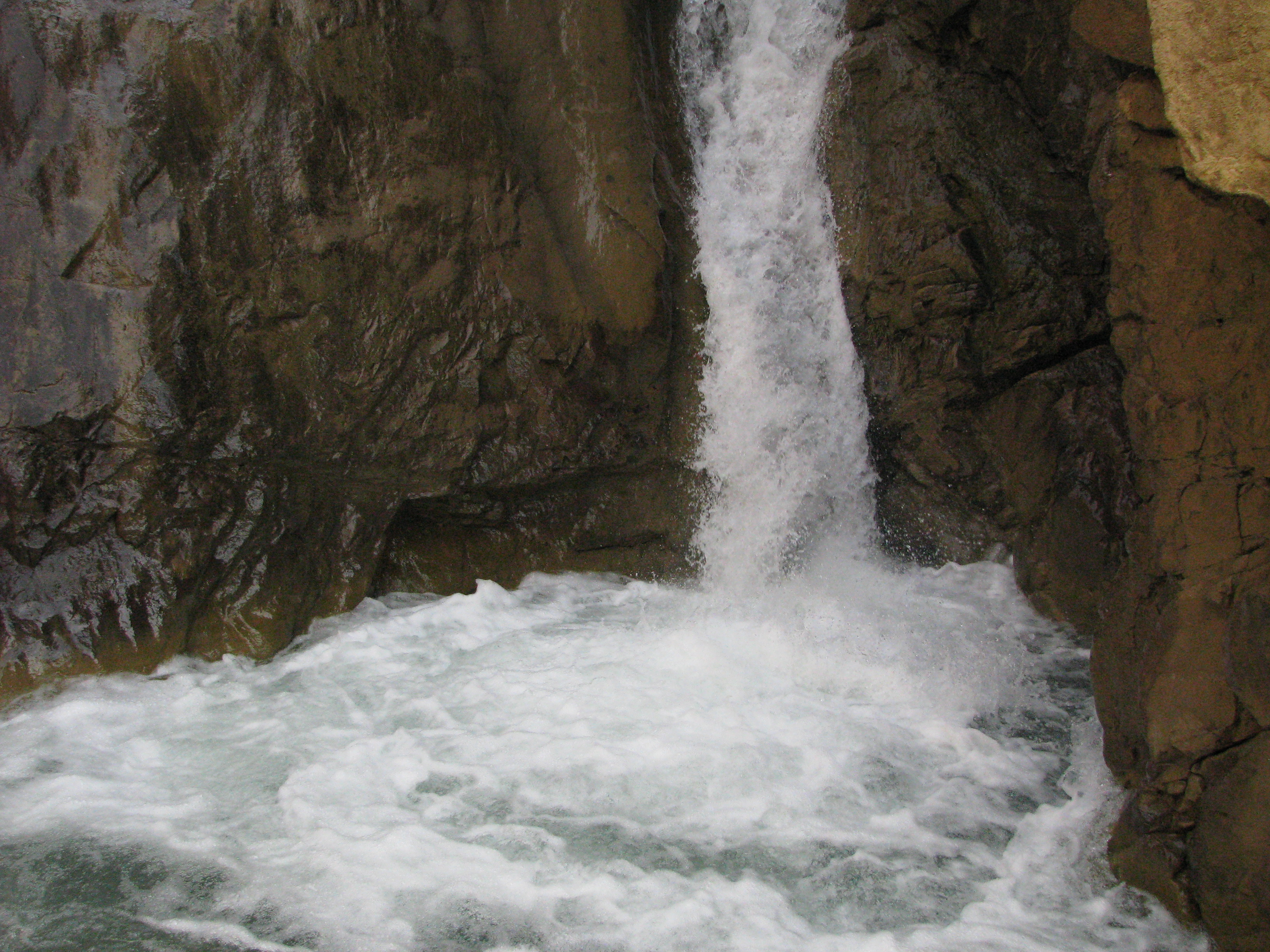 Plunge pool